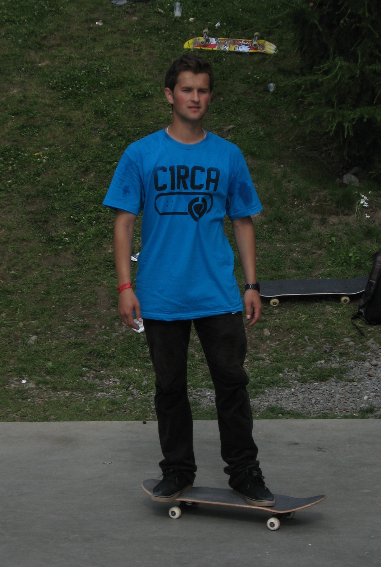 Alex Mizurov at the Cos Cup on the Sauerlandpark Hemer (Germany).